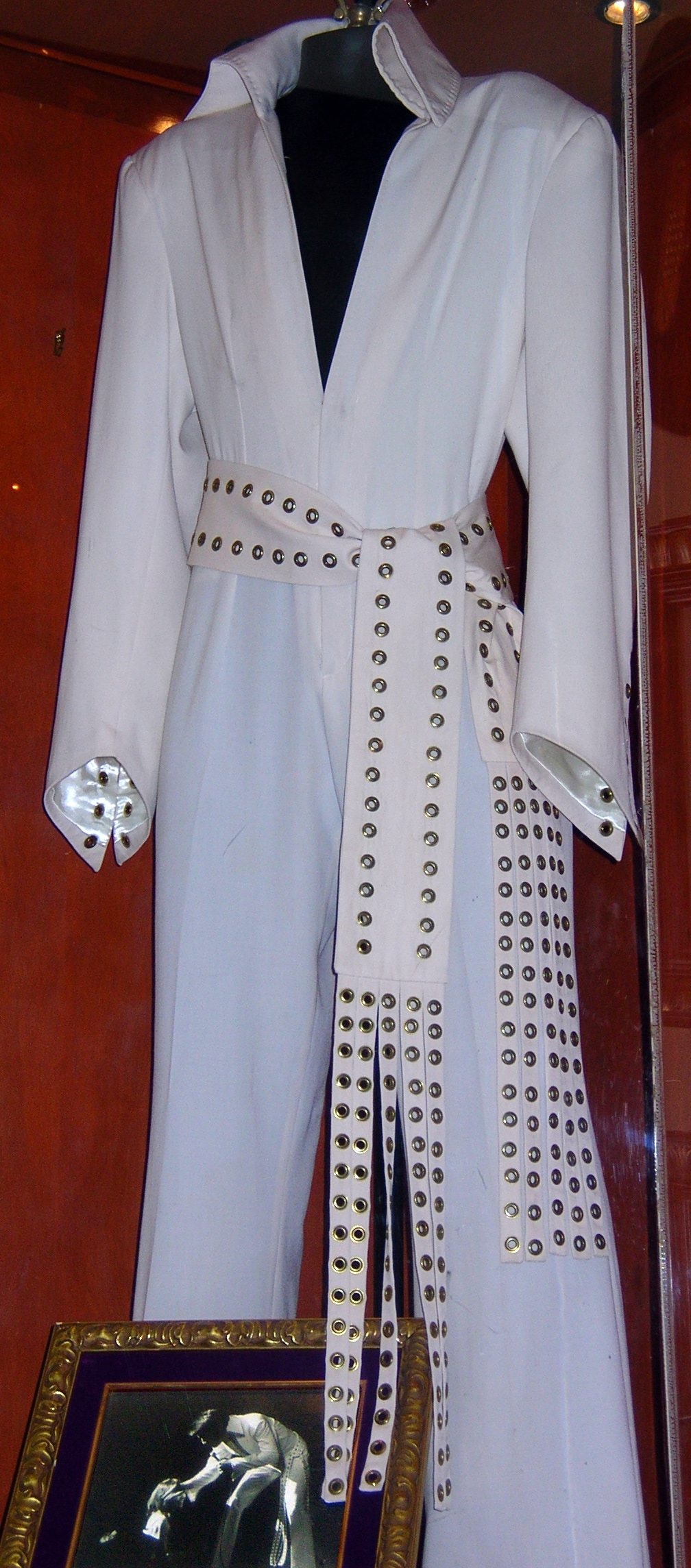 Elvis Presley's 1970 white jumpsuit on display at the Hard Rock Café, Hollywood in Universal City, California.